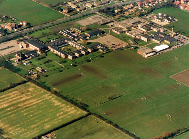 South Holderness School, Preston, East Riding of Yorkshire, England.This is the view looking north westwards from about 1500' (475m) high from above Mattocks Lane. The school has been extended since this photograph was taken in 1995. As it was taken on a Saturday, the photograph shows little evidence of attending pupils apart from those on the rugby pitch in the centre foreground.